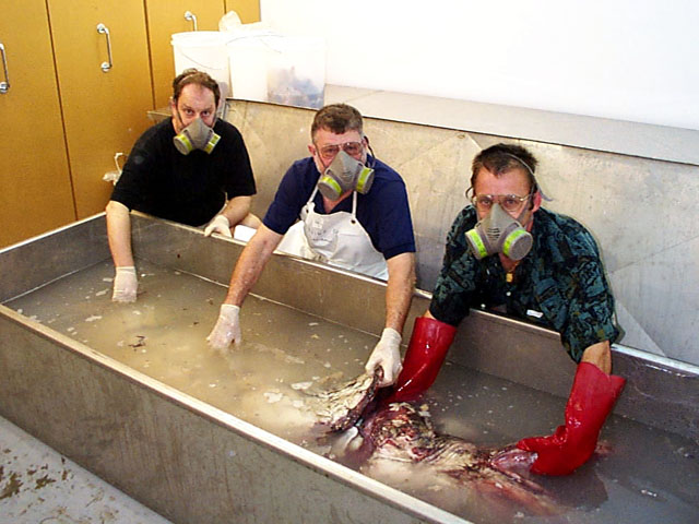 Photo from In Search of Giant Squid - 1999 Expedition Journals, Smithsonian Institution.